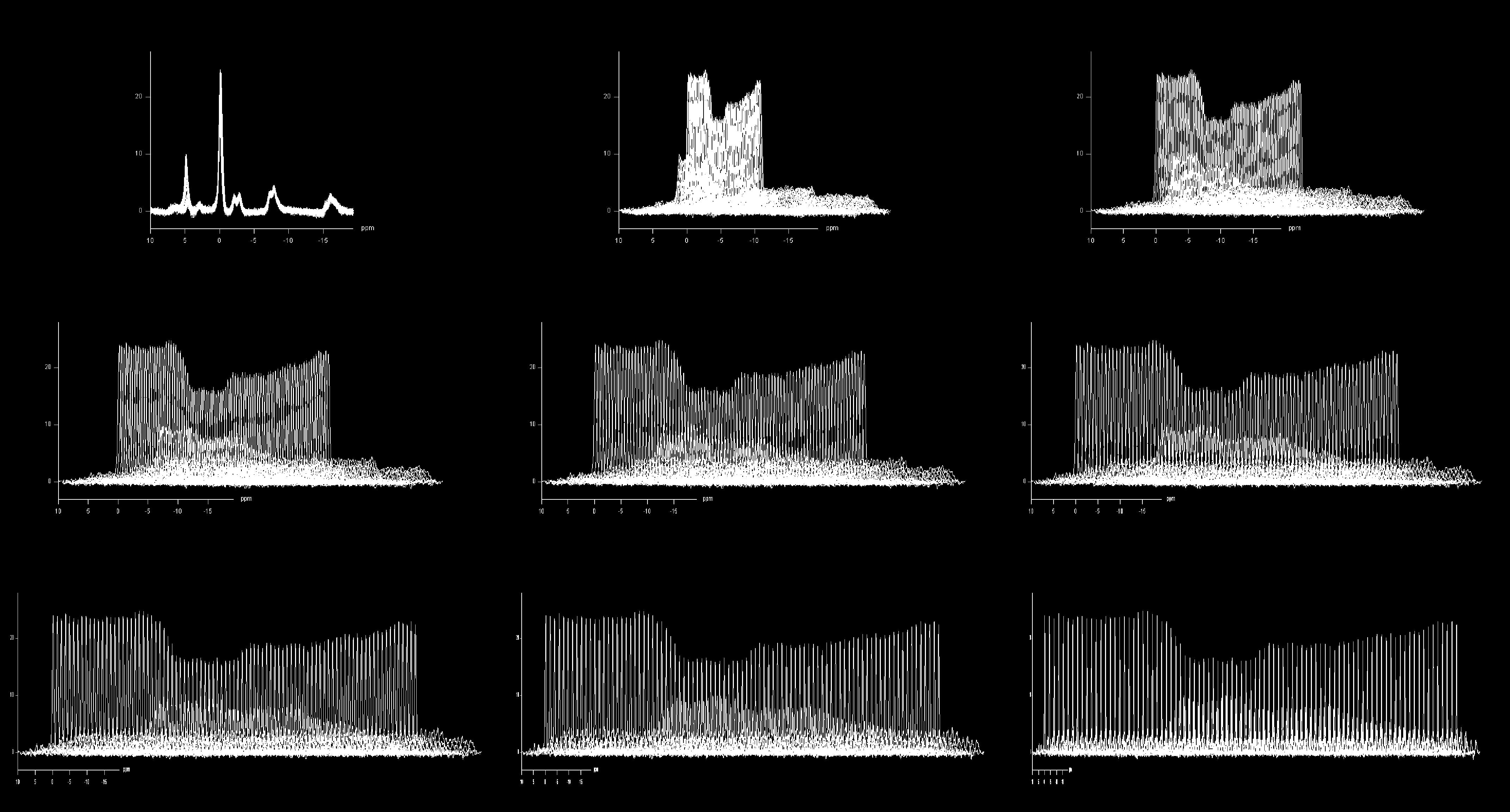 Serial phosphorus-31 magnetic resonance spectra of the calf muscle during incremental exercise and recovery.